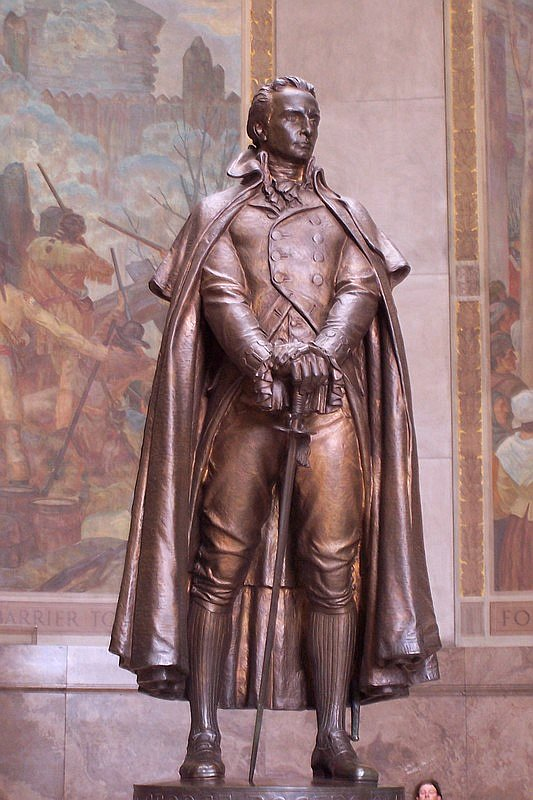 George Rogers Clark statue at George Rogers Clark Memorial, Vincennes, Indiana, sculpted by Hermon Atkins MacNeil